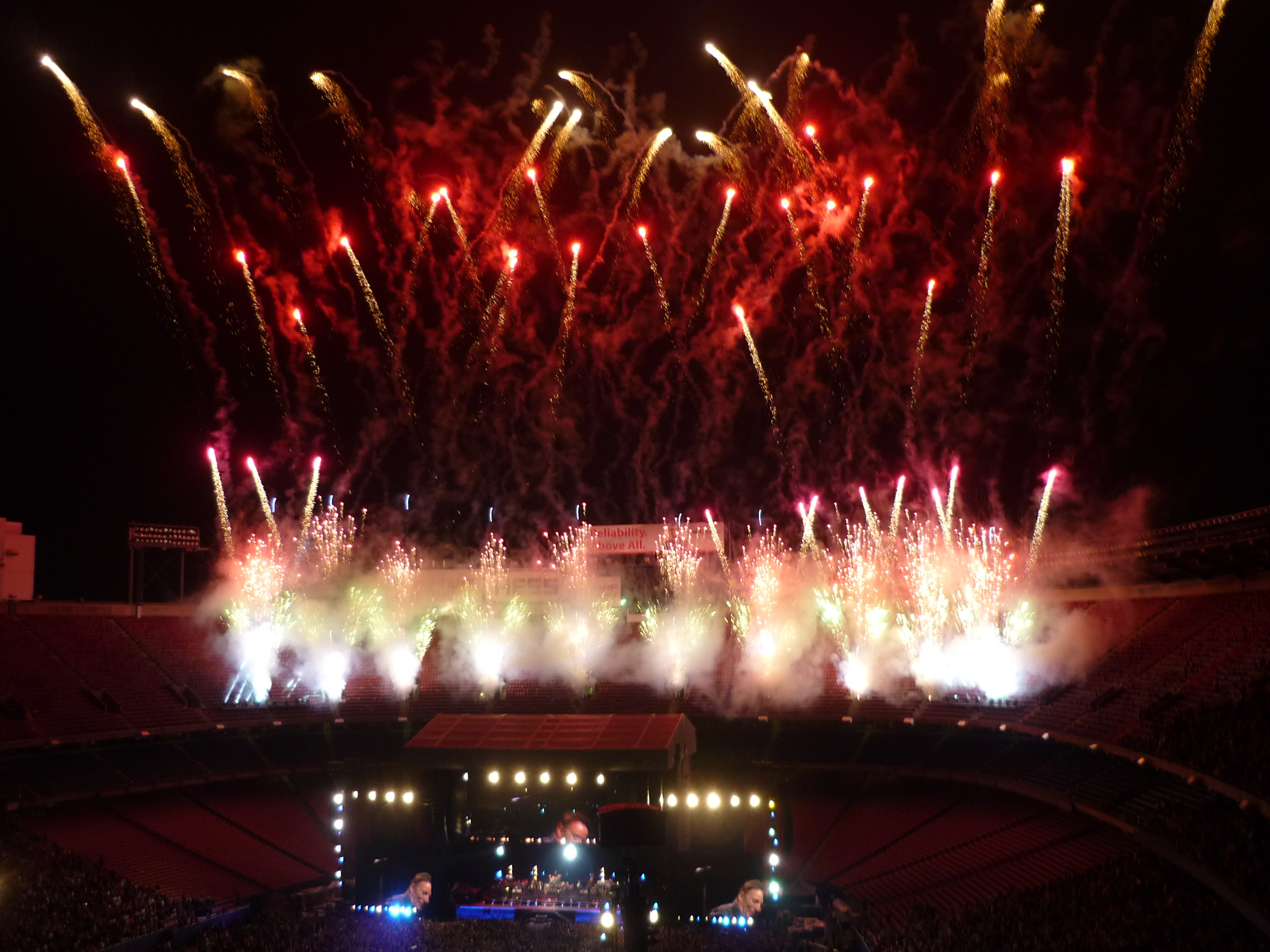 Fireworks going off as Bruce Springsteen and the E Street Band conclude the "E! Street! Band!" portion of "American Land" during the third of five final shows at Giants Stadium in New Jersey